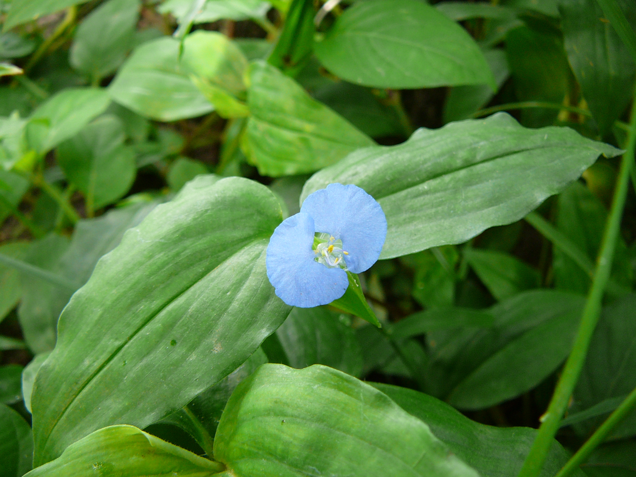 Commelina bracteosa Hassk.Identification by Djlayton4